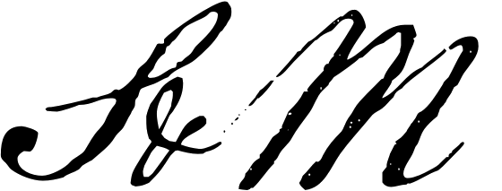 Logo of Rihanna's song "S&M"